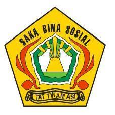 logo of saka bina sosial